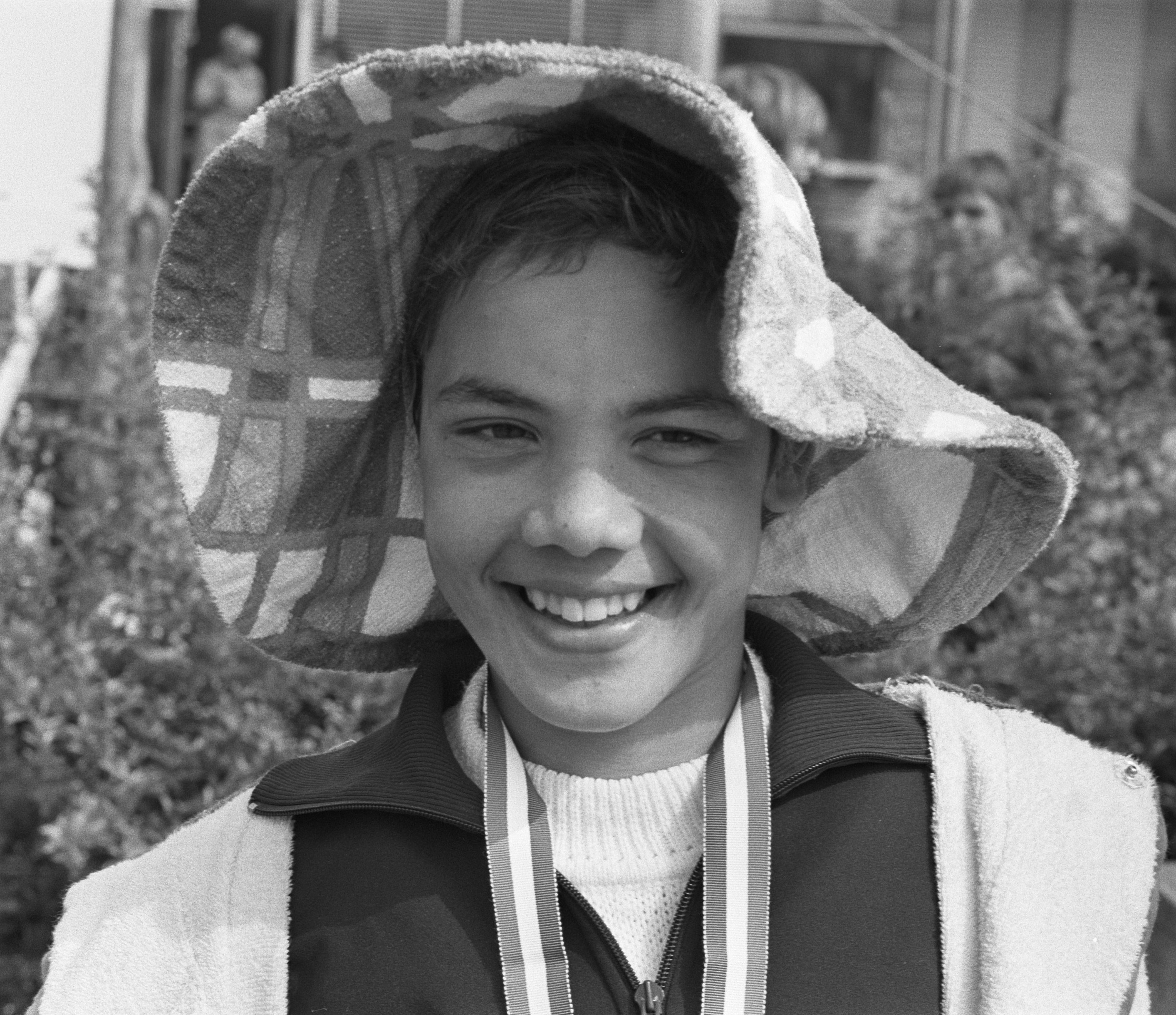 Linda Faber at national championships